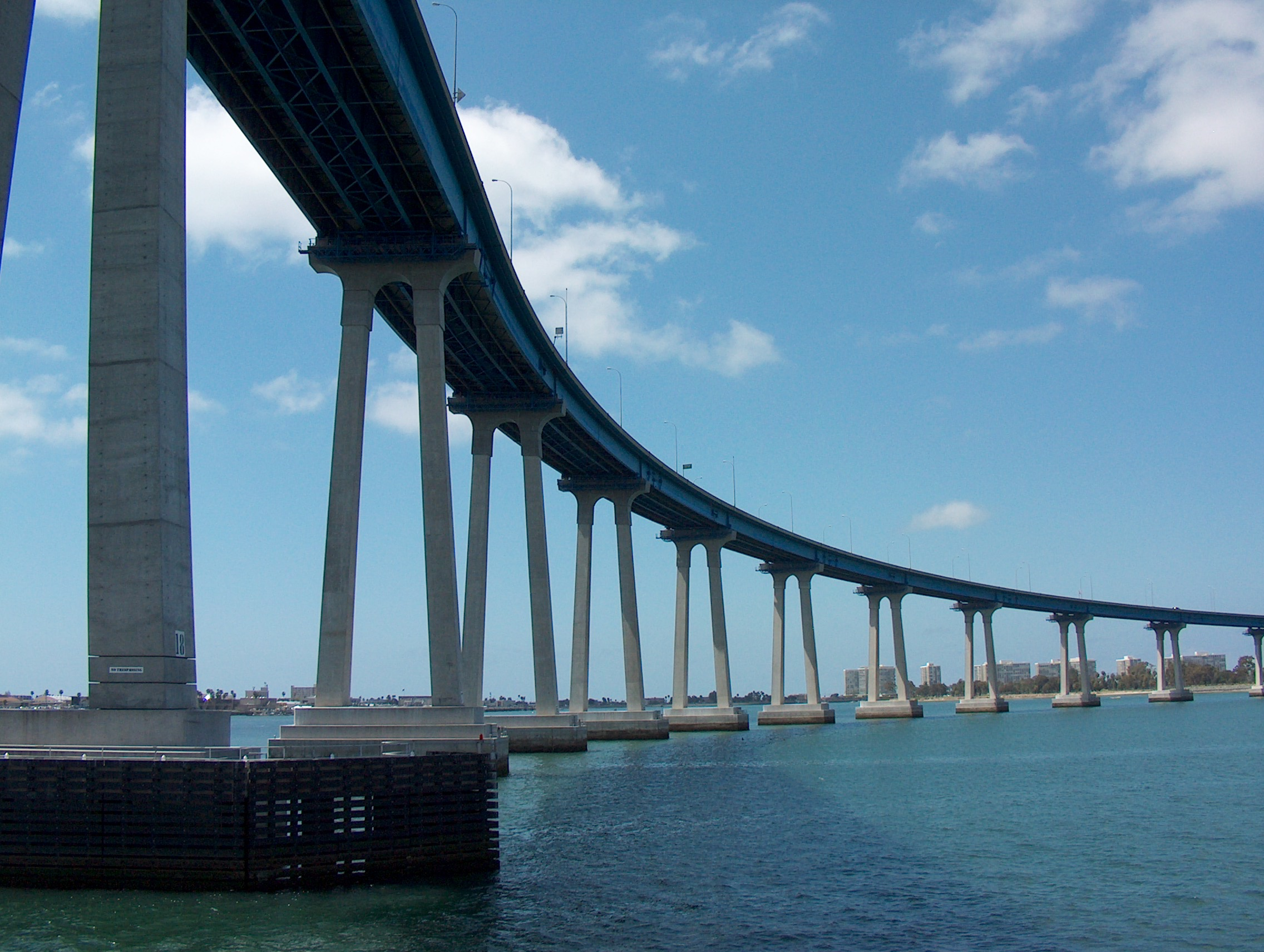 A view of the San Diego-Coronado Bridge from the bay in San Diego, CA.